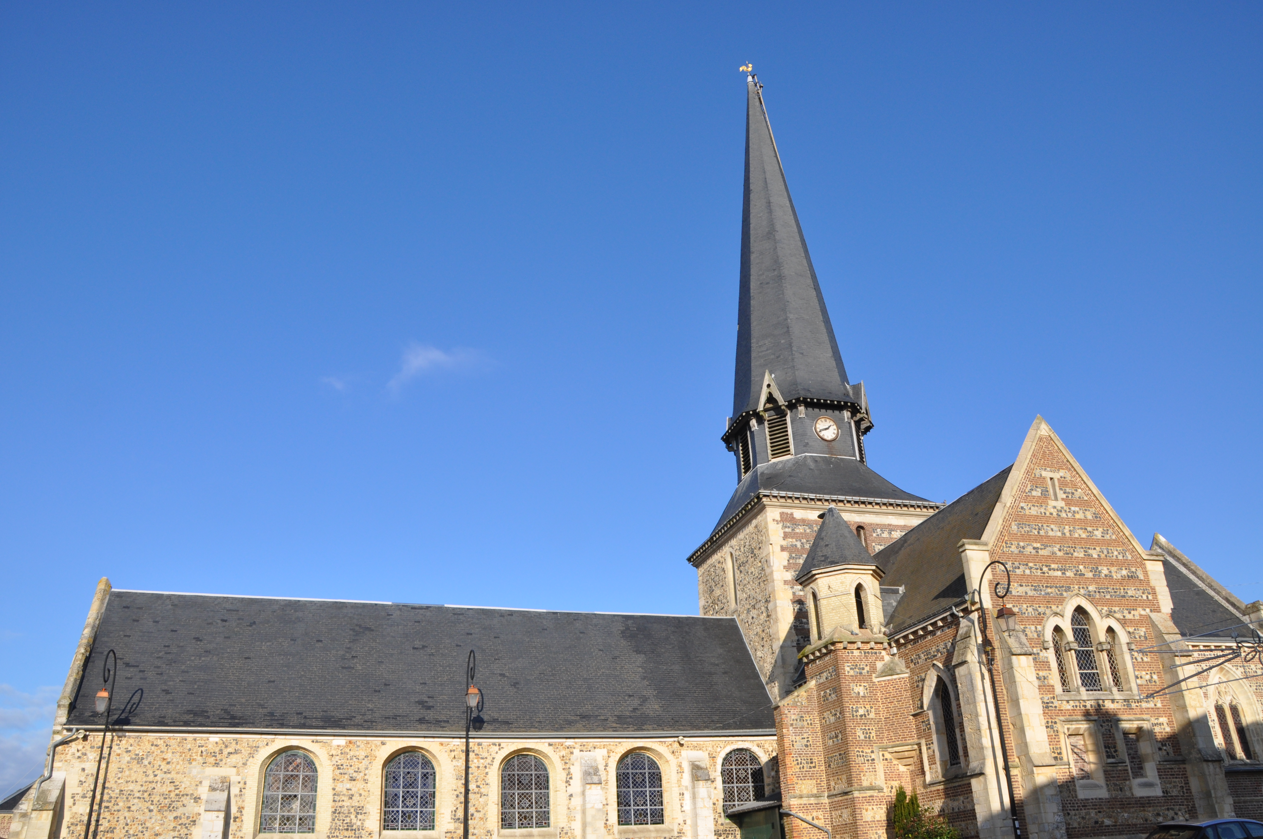 Church of Octeville, near Le Havre (France, Normandy)